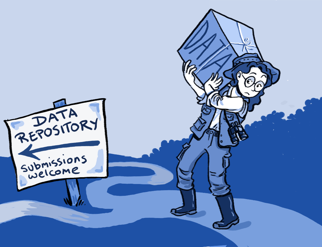 Researchers can be reluctant to share their data publicly because of real and/or perceived individual costs. Illustration credit: Ainsley Seago.